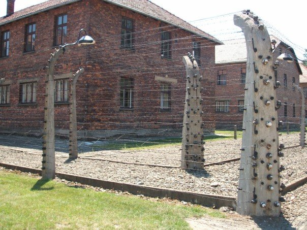 Auschwitz, German WWII concentration camp in Poland